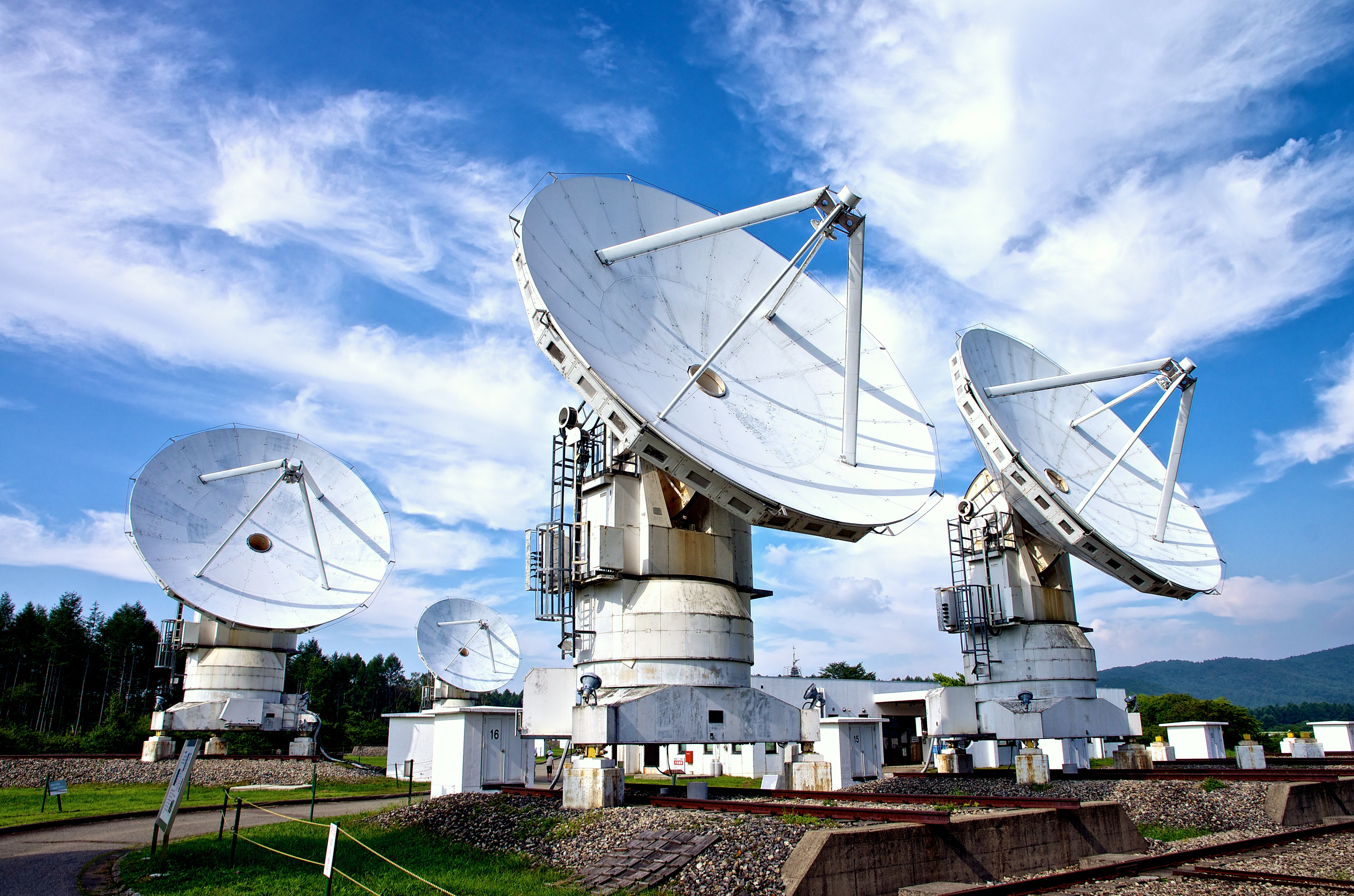 Nobeyama Radio Observatory